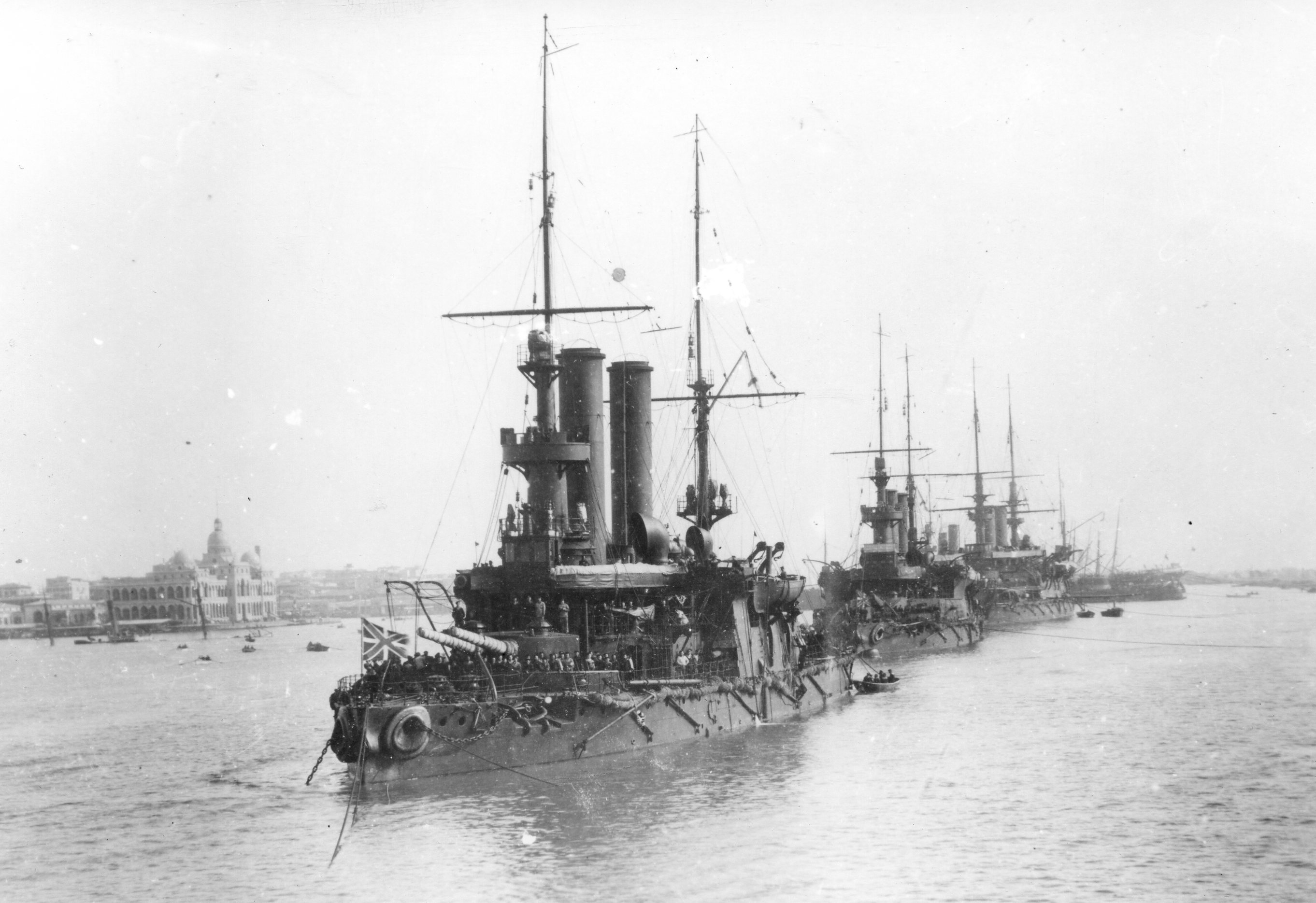 Imperial Russian coastal battleships at Port Said, 11 March 1905.